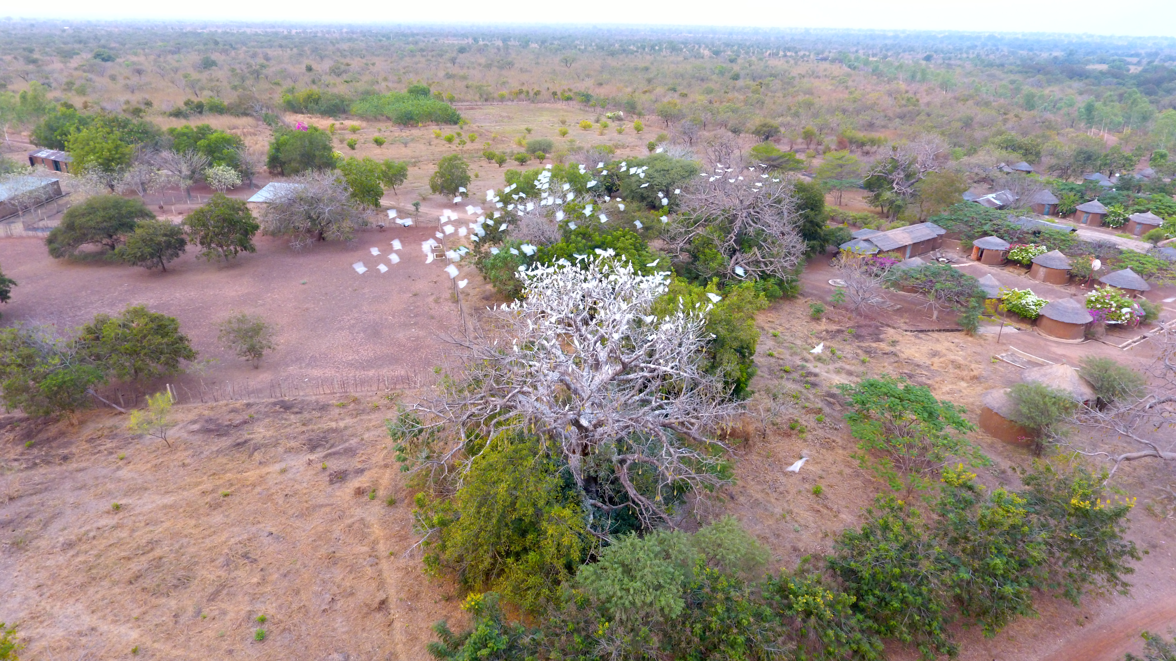 Colonies d'oiseaux sur un baobab spécifiquement les hérons garde-boeufs